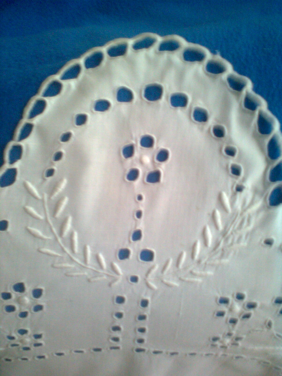 Embroidery tablecloth oval hole edge, high-protein wheat motives embroidery with different sized holes, wind patterns